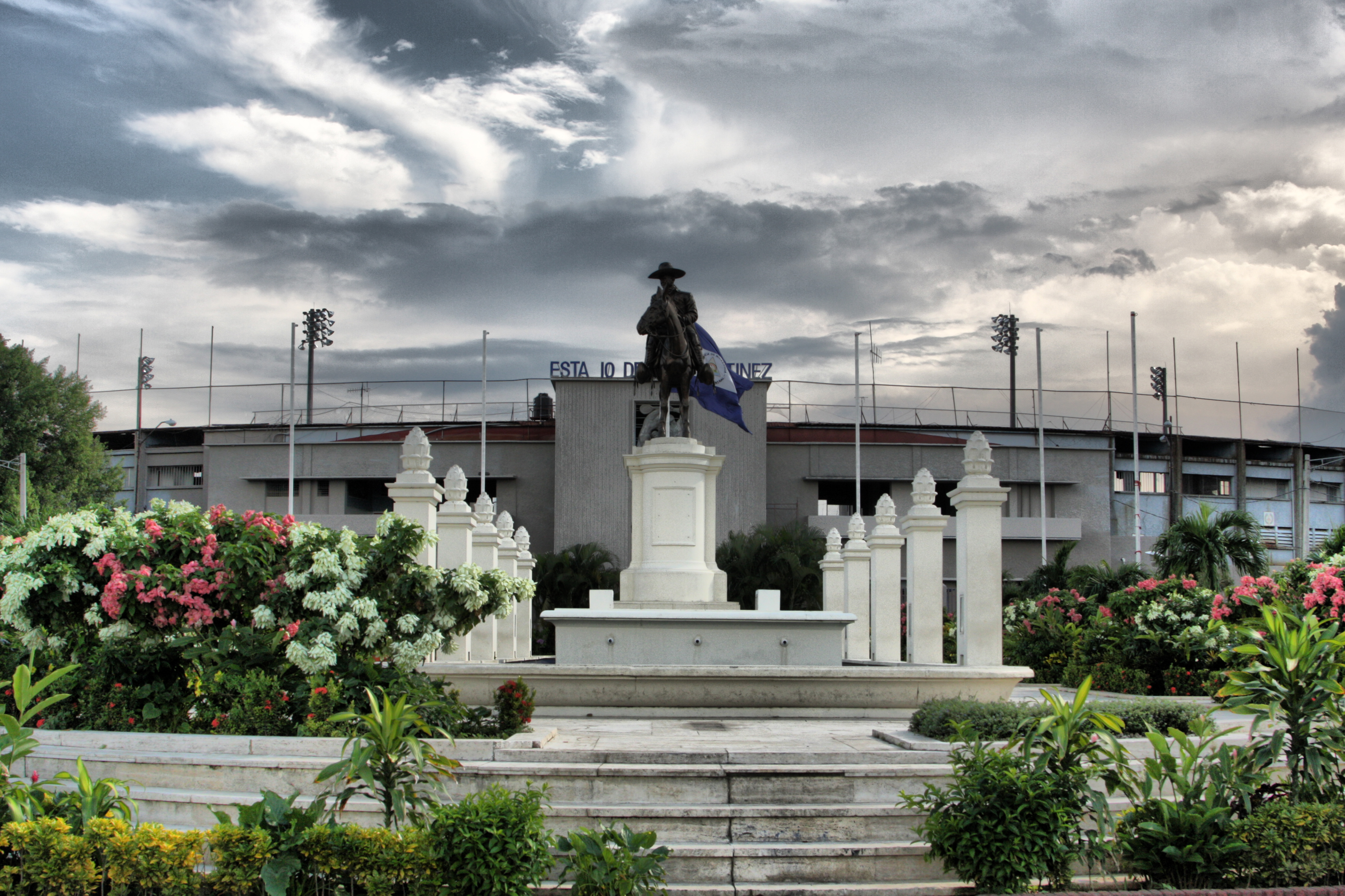 Statue of Sandino outside the national baseball stadium in Managua